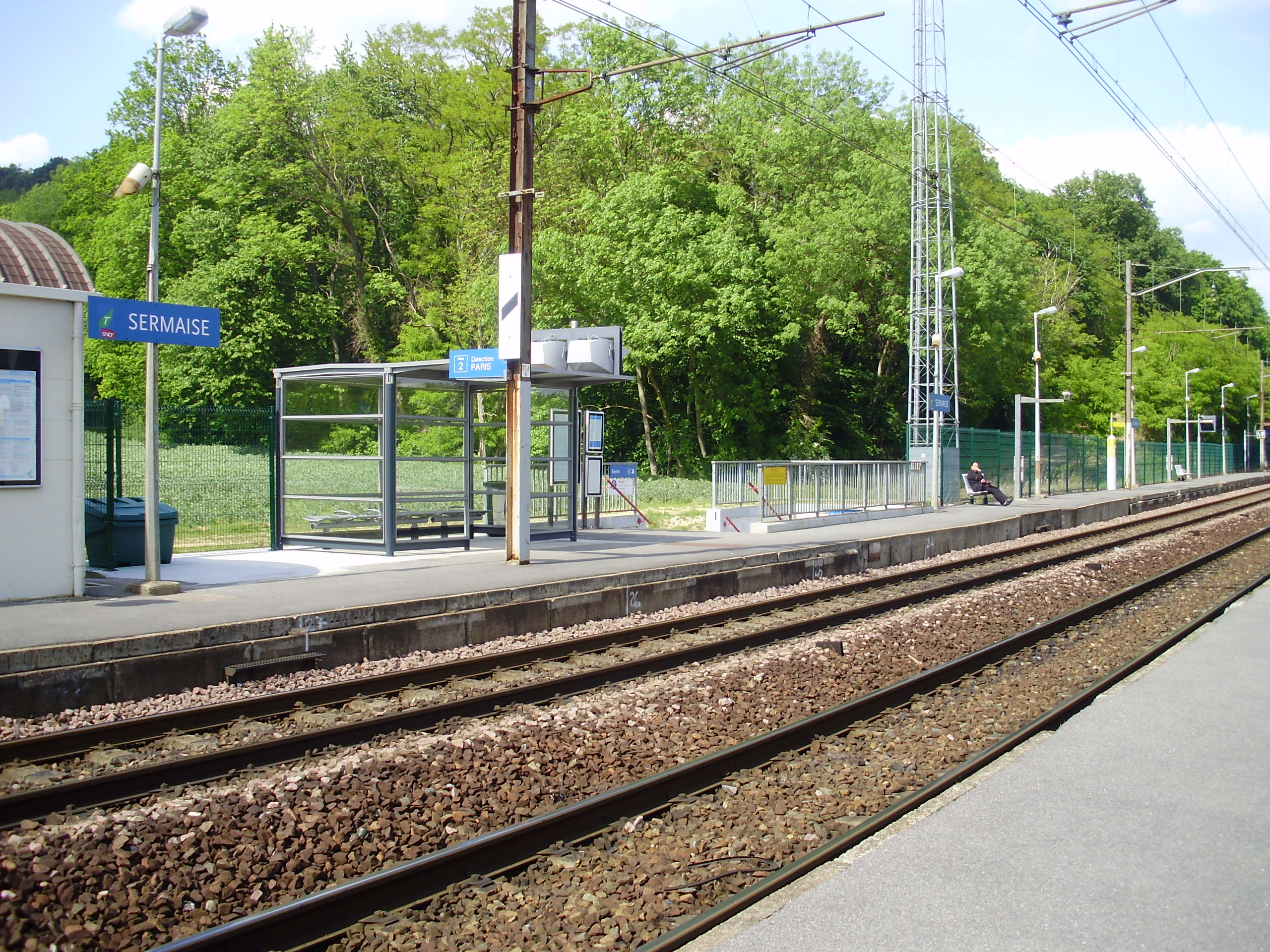 Sermaise station, Essonne, France (at background : platform to Paris)